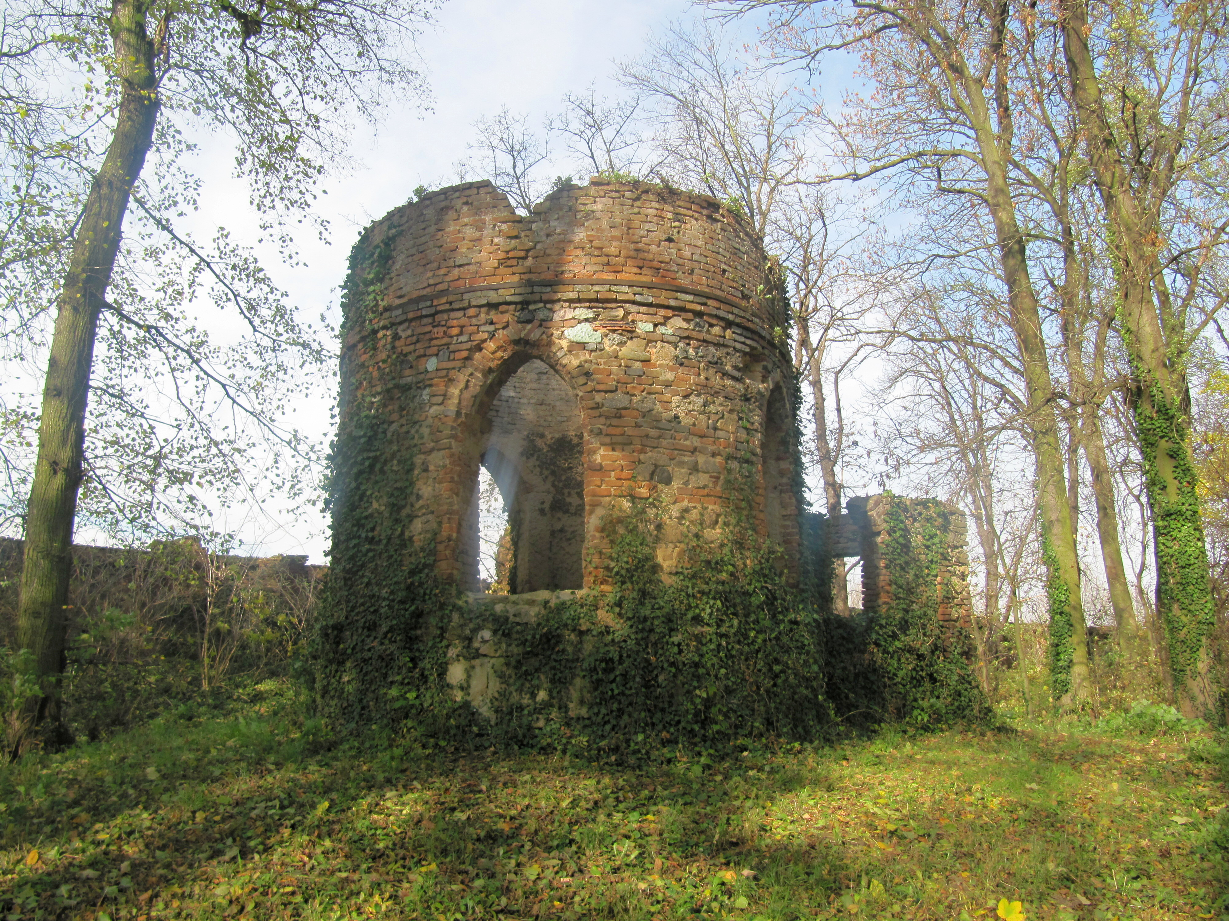 Milotice in Hodonín District, Czech Republic. Castle ,ruin in the park.